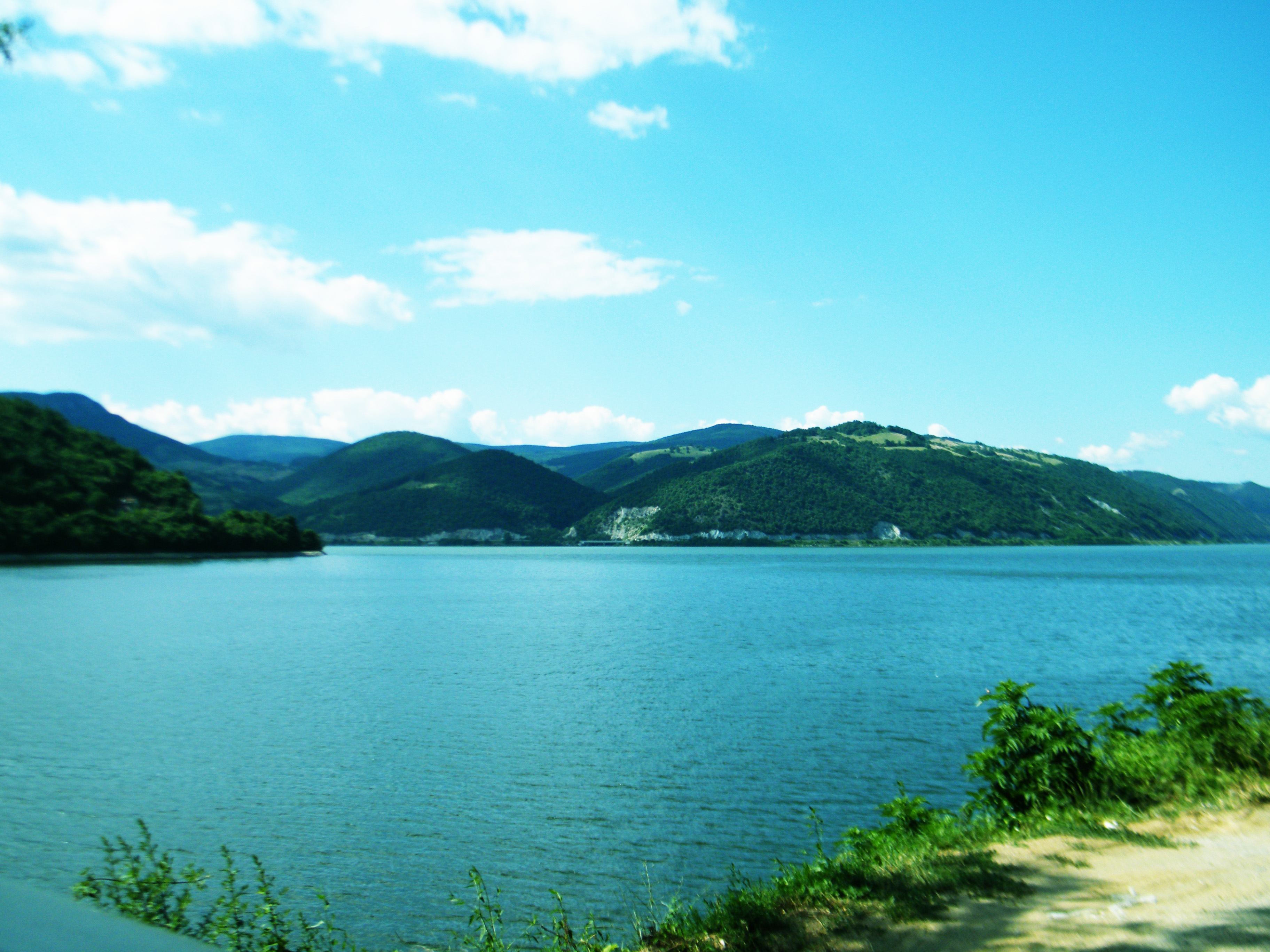 The Đerdap National Park (Serbian: Национални парк Ђердап / Nacionalni park Đerdap) stretches along the right bank of the Danube River from the Golubac fortress (Serbian: Голубачки град / Golubački grad) to the dam near Sip, Serbia.